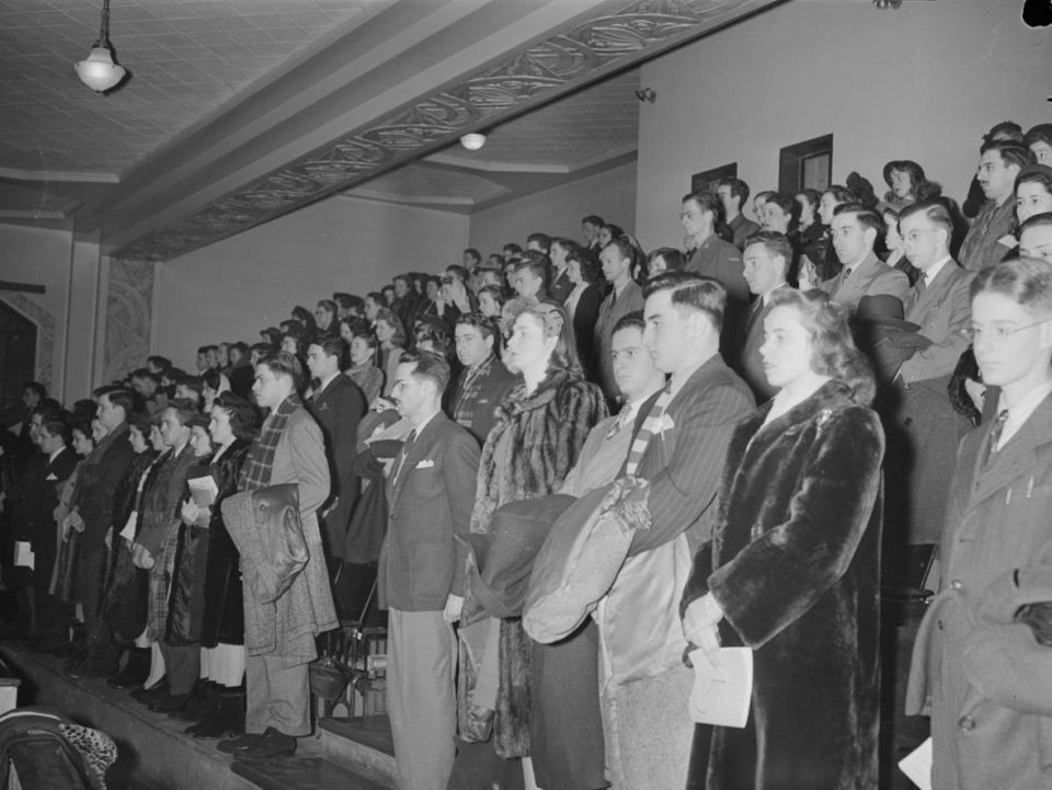 The audience, standing at the back of the room, listen to a symphony concert presented in the auditorium of the Plateau, Calixa-Lavallée Avenue in Montreal.